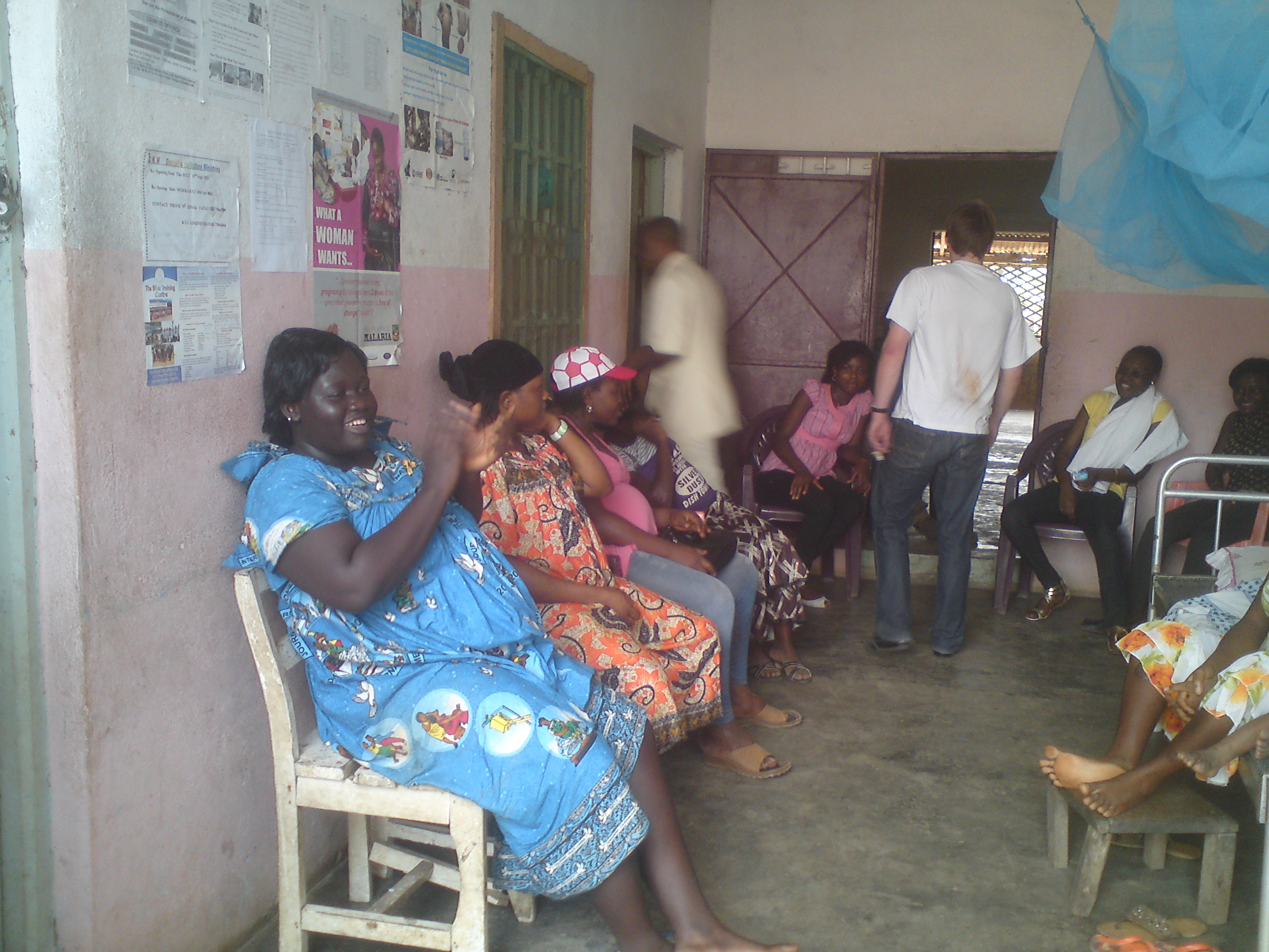 HIV prevention